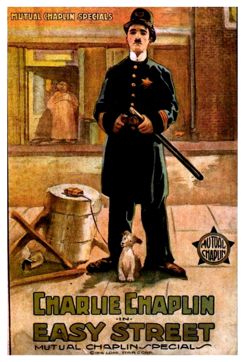 Poster for the 1917 film Easy Street.